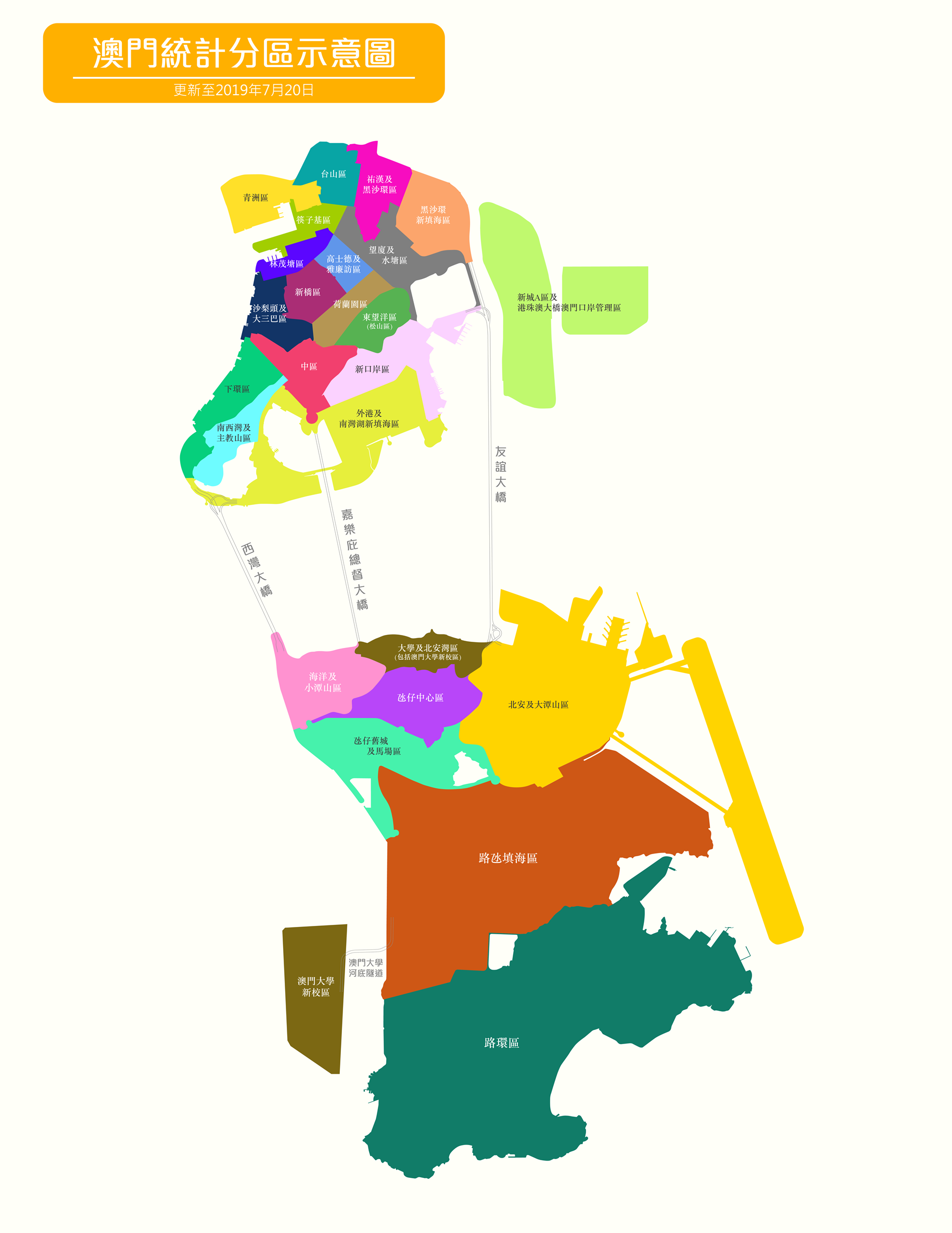 The Map of Macau Statistical Districts